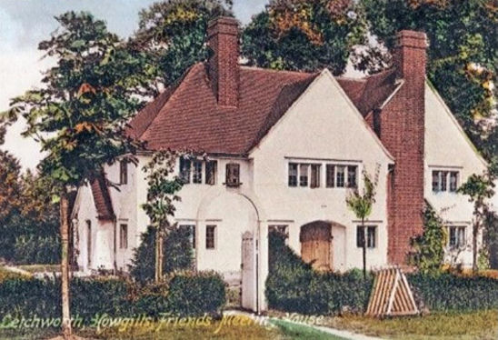 Howgills, the Meeting House for the Society of Friends built in 1907 in Letchworth Garden City